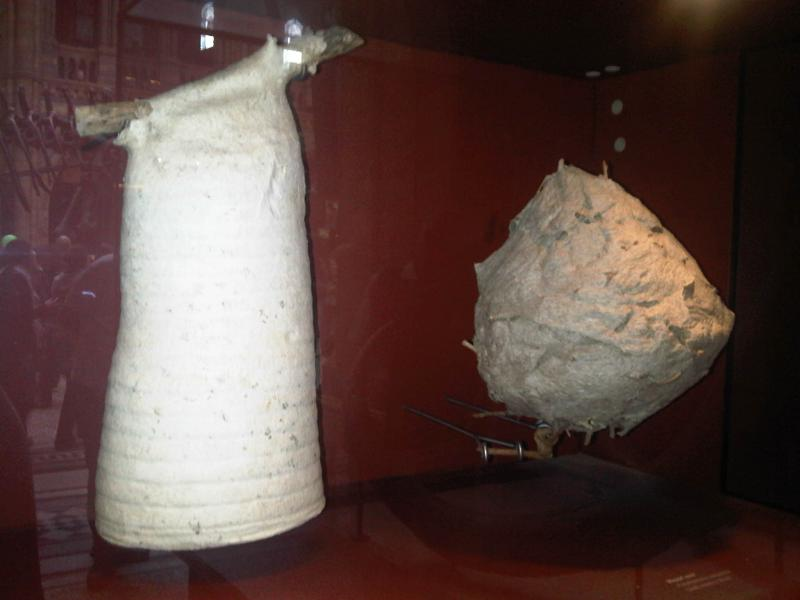 Wasps' nests at the Natural History Museum in London, UK: Chartergus metanotalus from north-west Brazil and Pseudopolybia compressa from Brazil. These wasps' nests are all made of paper. The wasps chew plant fibres into a pulp, mixing it with their sticky saliva to make a lightweight, waterproof building material. An outer casing protects layers of hexagonal cells where eggs and young wasps develop. The entrances are small and easily guarded against predators. Solitary wasps' nests may be as simple as a burrow in the soil. But social wasps, which often live in colonies of thousands, are more ambitious. Their nests vary in shape and size from one type of wasp to another as you can see from these two examples.